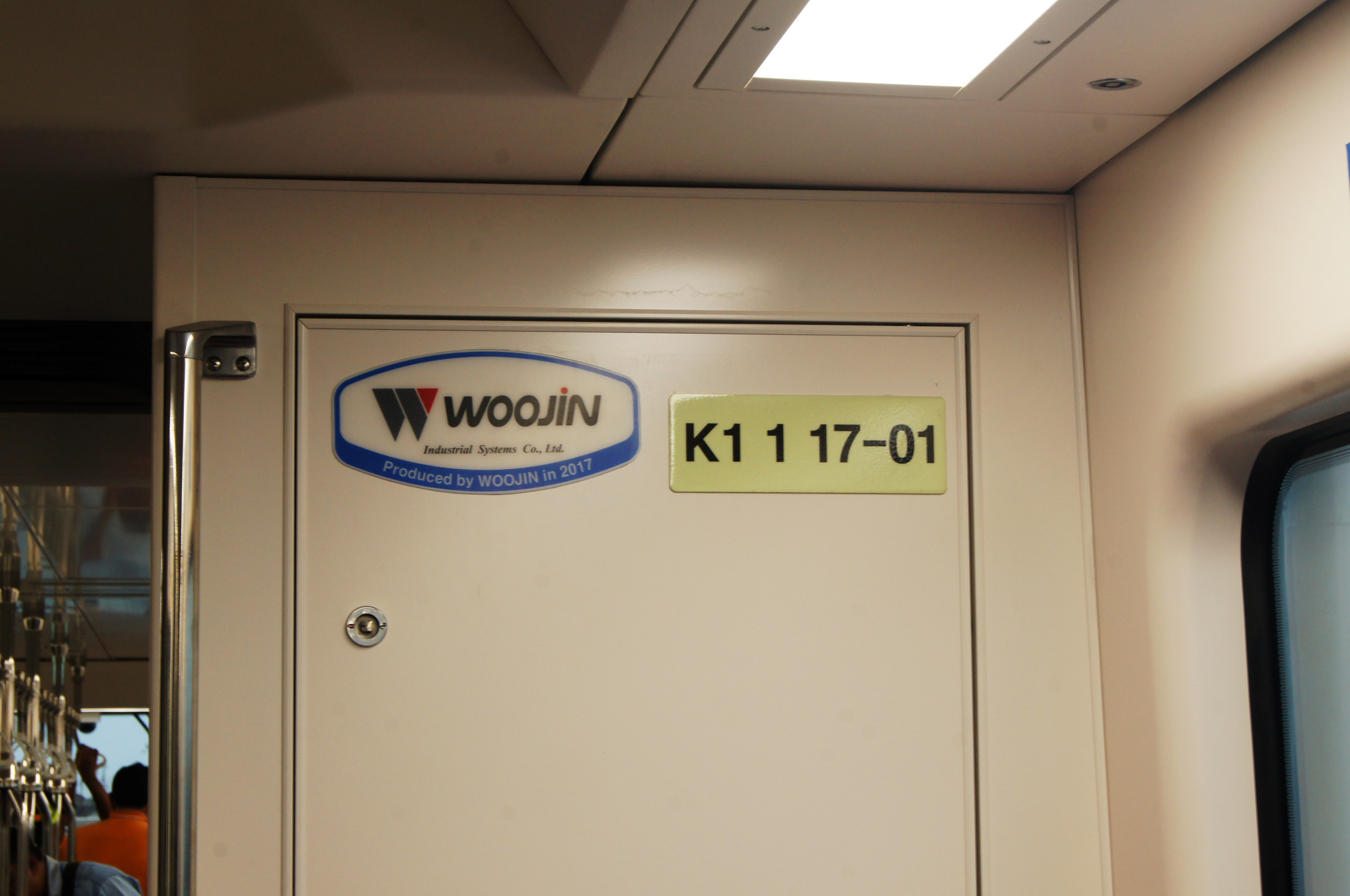 Woojin builderplate as well as the running number. There are three two-car APMS sets, with numbers K1 1 17 01-06